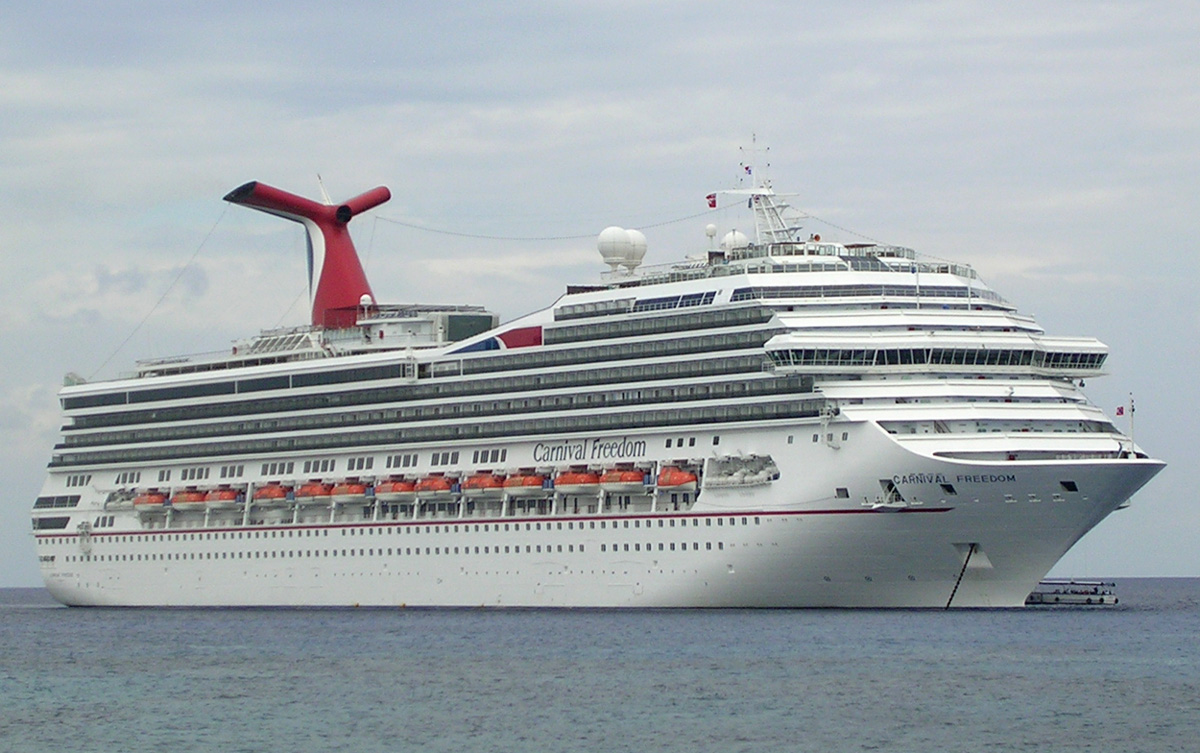 Carnival Freedom is in the harbor at George Town, Grand Cayman. It is one of Carnival's ships entering cruise service in 2007. It has a lot of balconies. The ship is 952 ft (290 m) long. It lists capacity of carries 2,900 passengers, which might be the meximum if extra capacity in cabins is used. I took this photo from the shore. I knew that Carnival has some big ships, but was surprised to learn that it has no cruises longer than eight days.